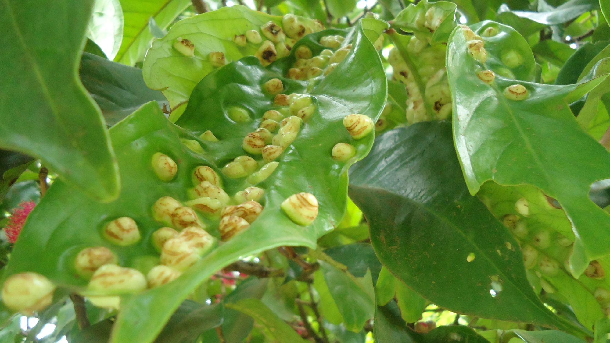 Syzygium aqueum (Watery Rose Apple or Tambis) mosaic virus